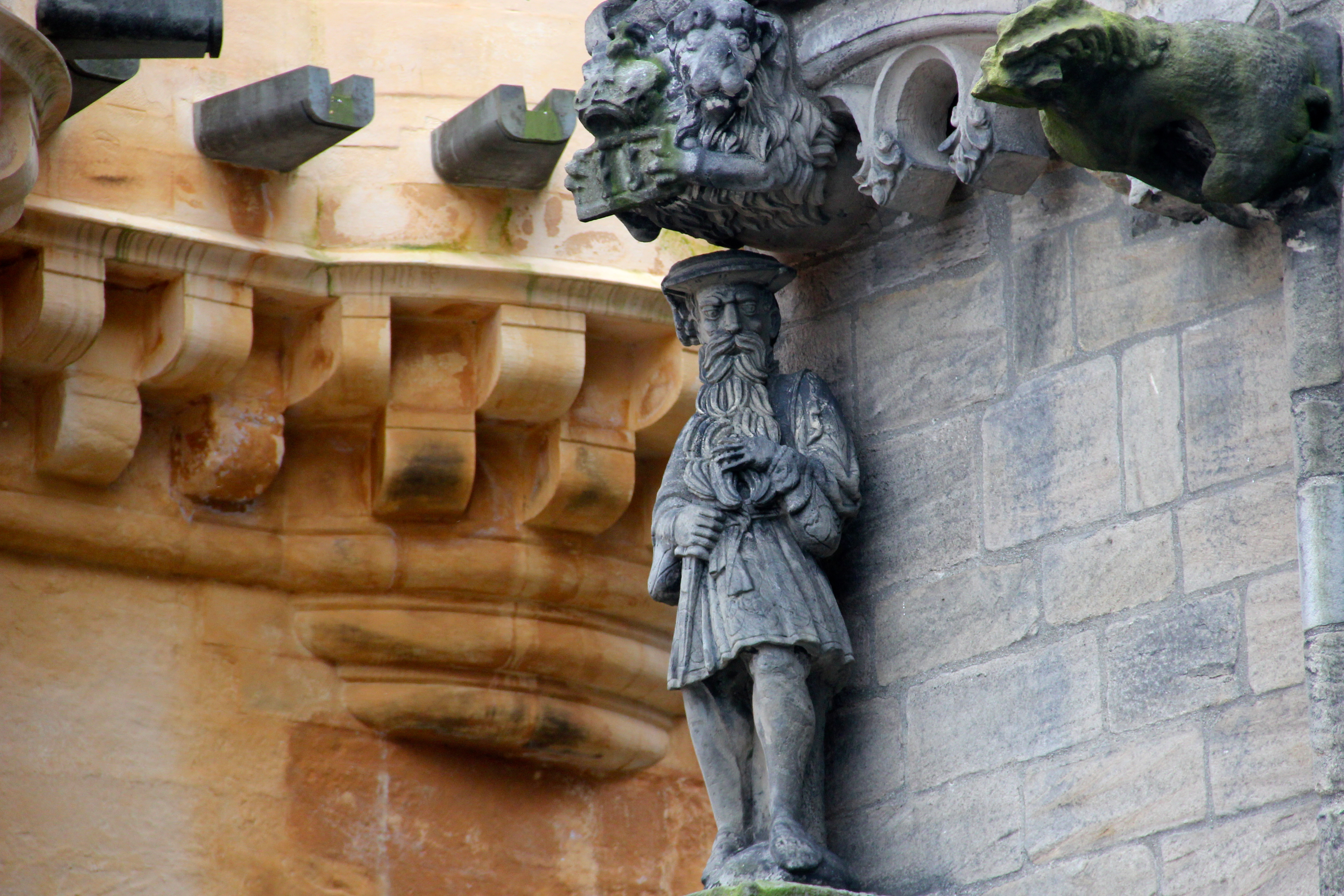 Statue of James V of Scotland adorning the eastern corner of the Royal Palace at Stirling Castle.